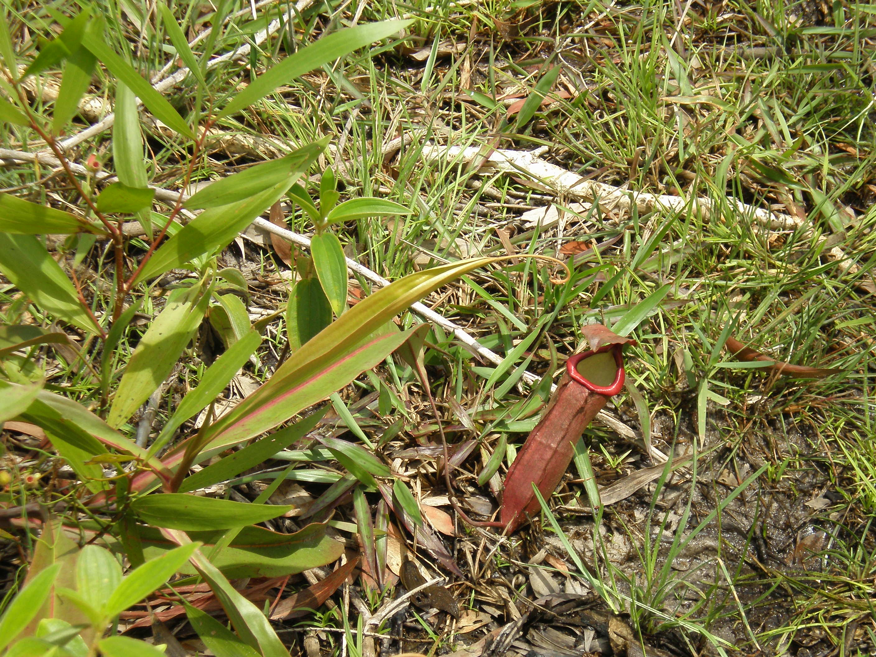 N Hybrid between N. thorelii and N. mirabilis from near "Ta Cui MT" Binh Thuan province, Vietnam